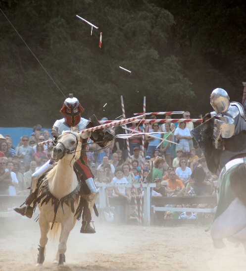 Jousting at the Bristol Renaissance Faire. Both combatants have just broken their lances.